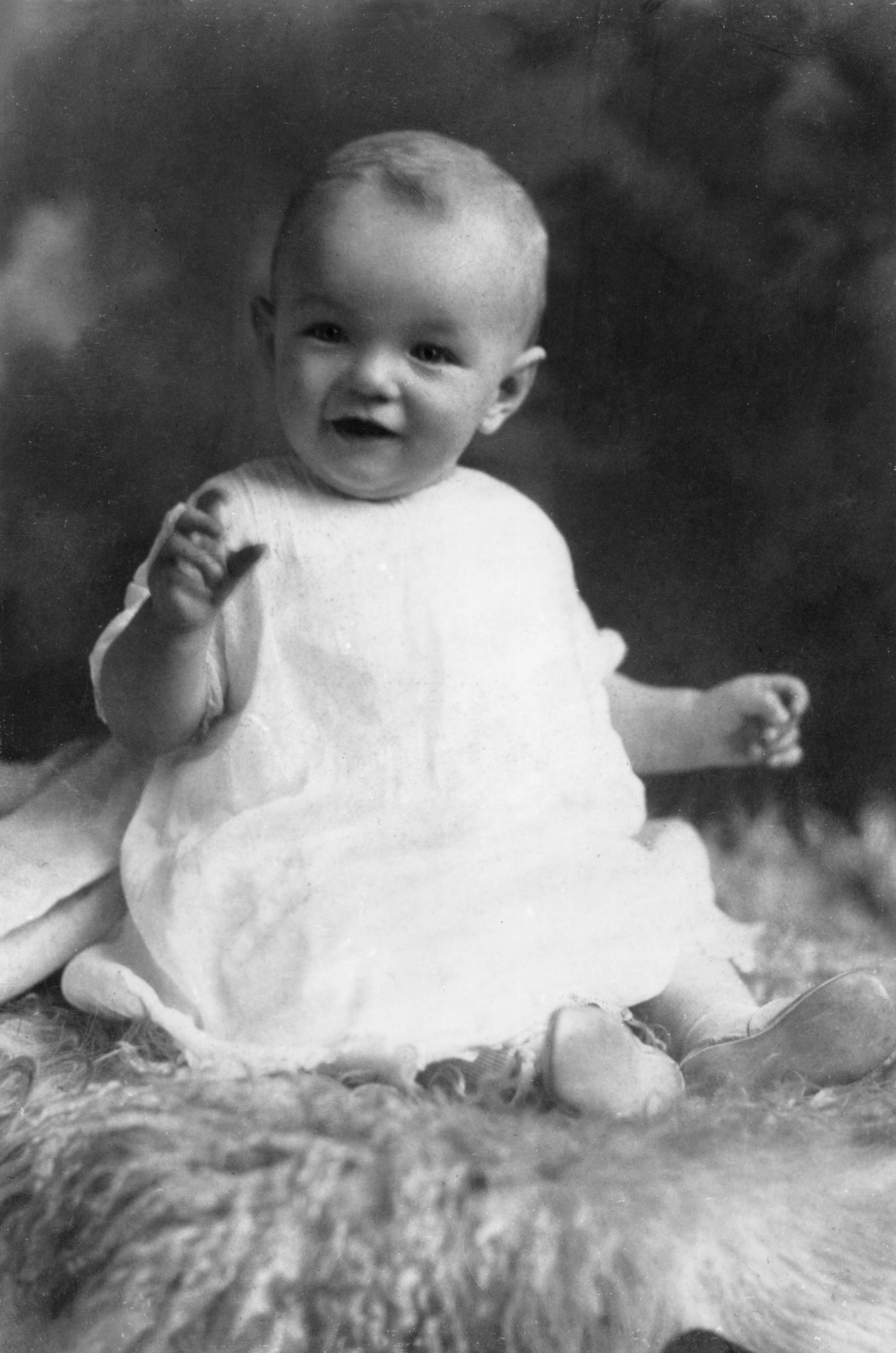 Photo of Marilyn Monroe as a baby from the October 1953 issue of Modern Screen. Note this is a larger, better quality copy of the photo seen on Modern Screen page 34. A renewal search was done at using the title Modern Screen. There were no listings for the publication; there's no evidence of continued copyright on the magazine.